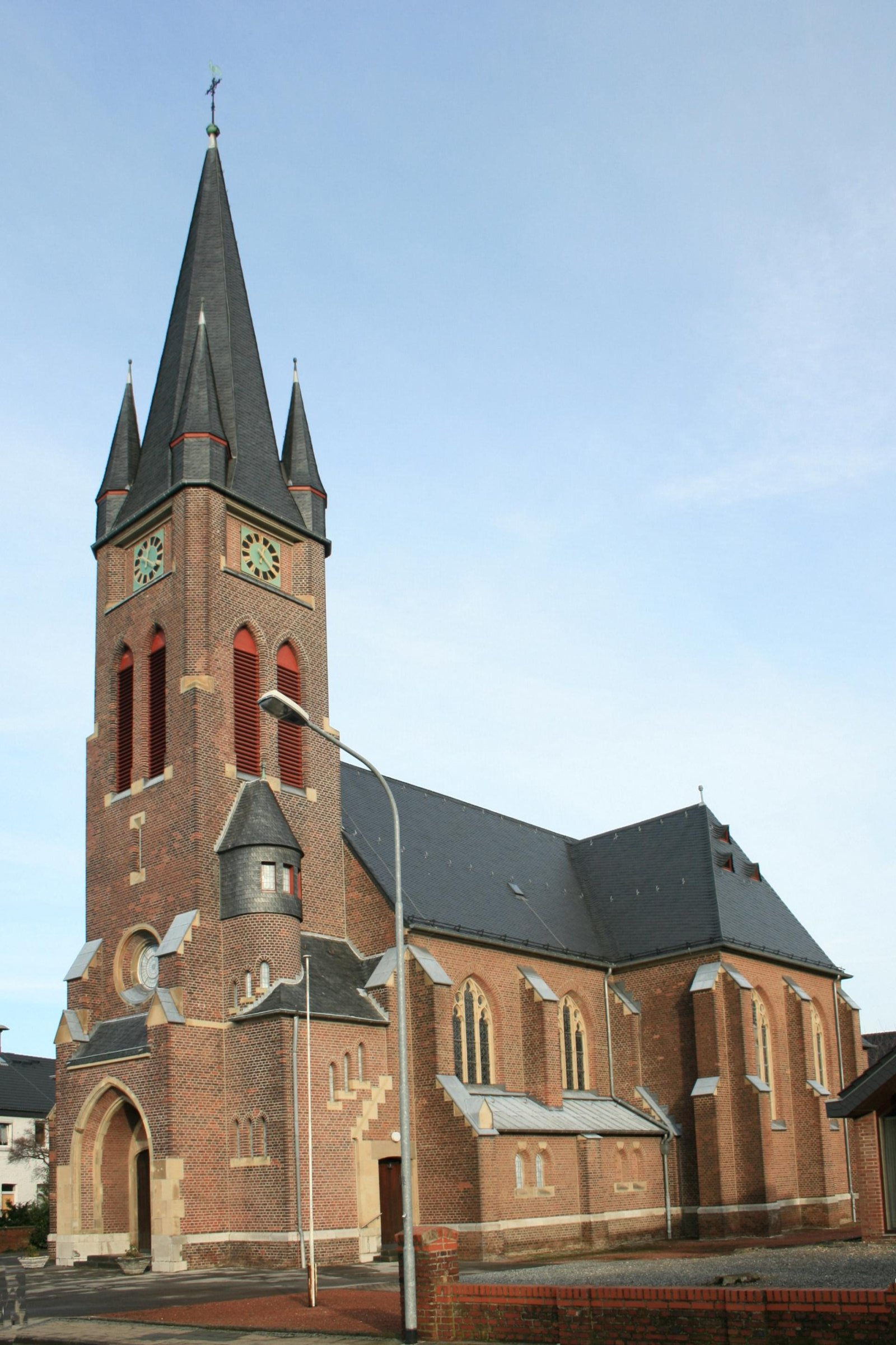 Cultural heritage monument No. 17 in Aldenhoven